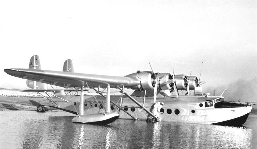 NC-16734 at the Pan American Airways base at Alameda, California in the summer of 1937.